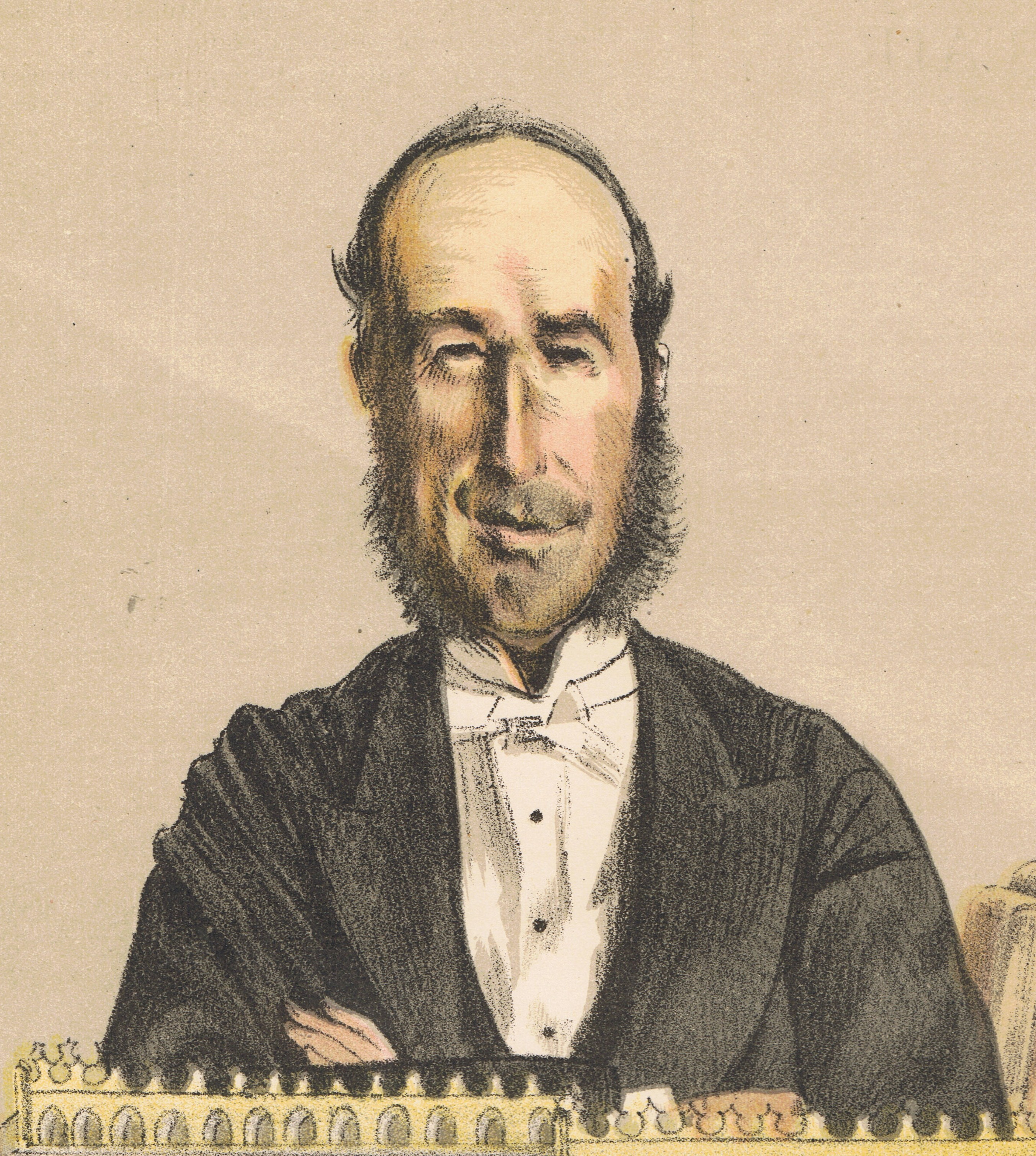 My scan (R. de Salis, Rodolph (talk)) of detail of lithographic reproduction of John George Dodson, after James Tissot, published in Vanity Fair, 16 December 1871.